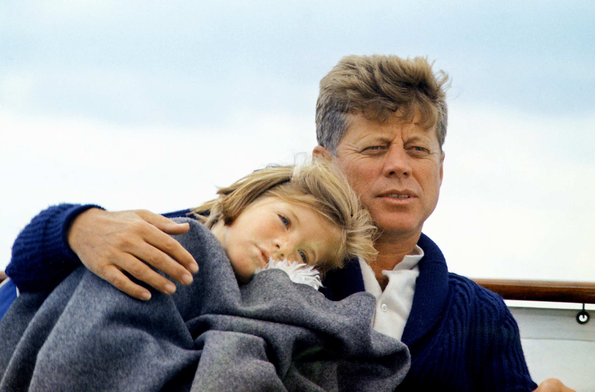 Hyannisport Weekend. Caroline Kennedy, President Kennedy. Hyannisport, MA, aboard the "Honey Fitz".